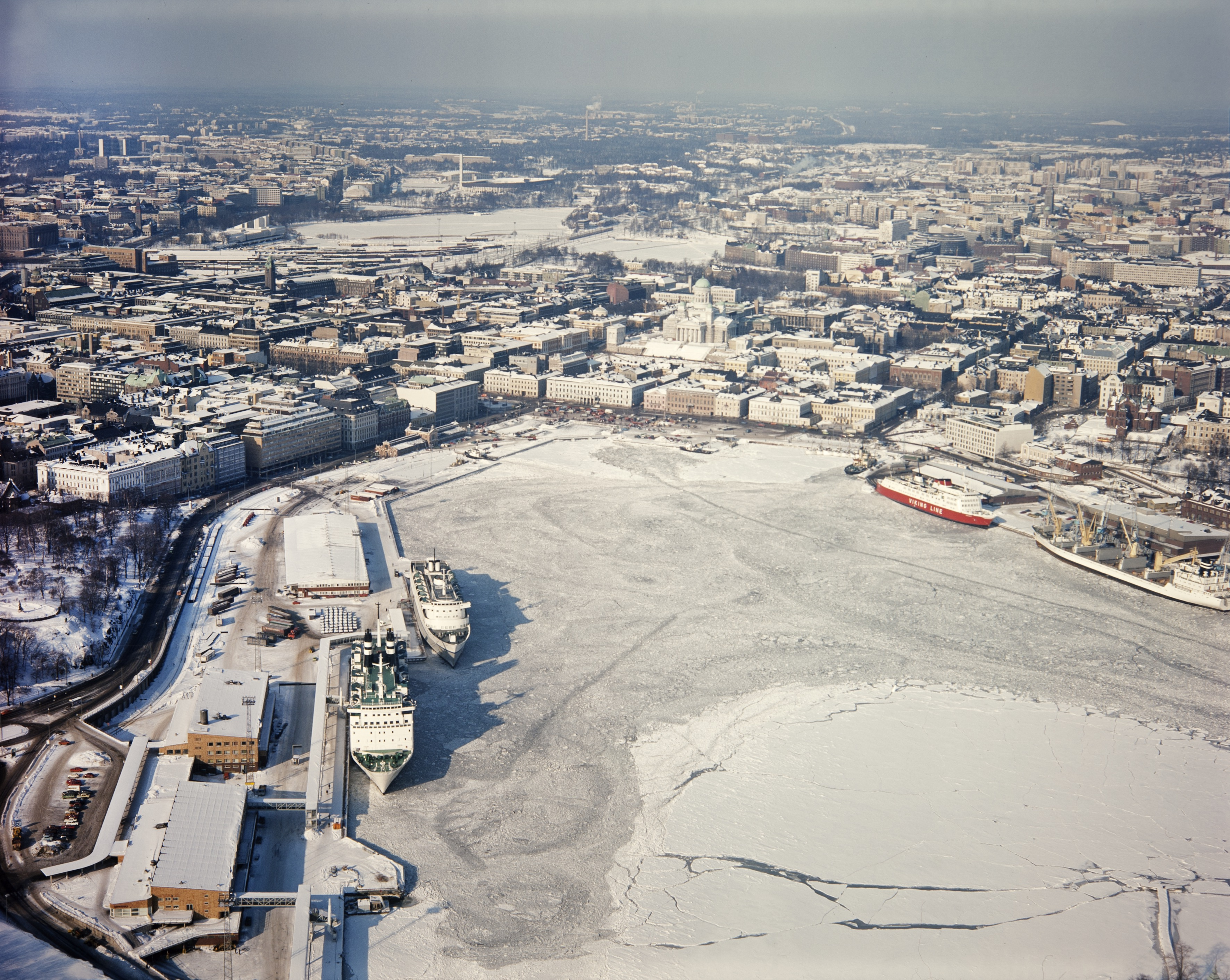 Aerial photograph of the South Harbour in Helsinki, Finland, in winter 1975, seen from southeast.